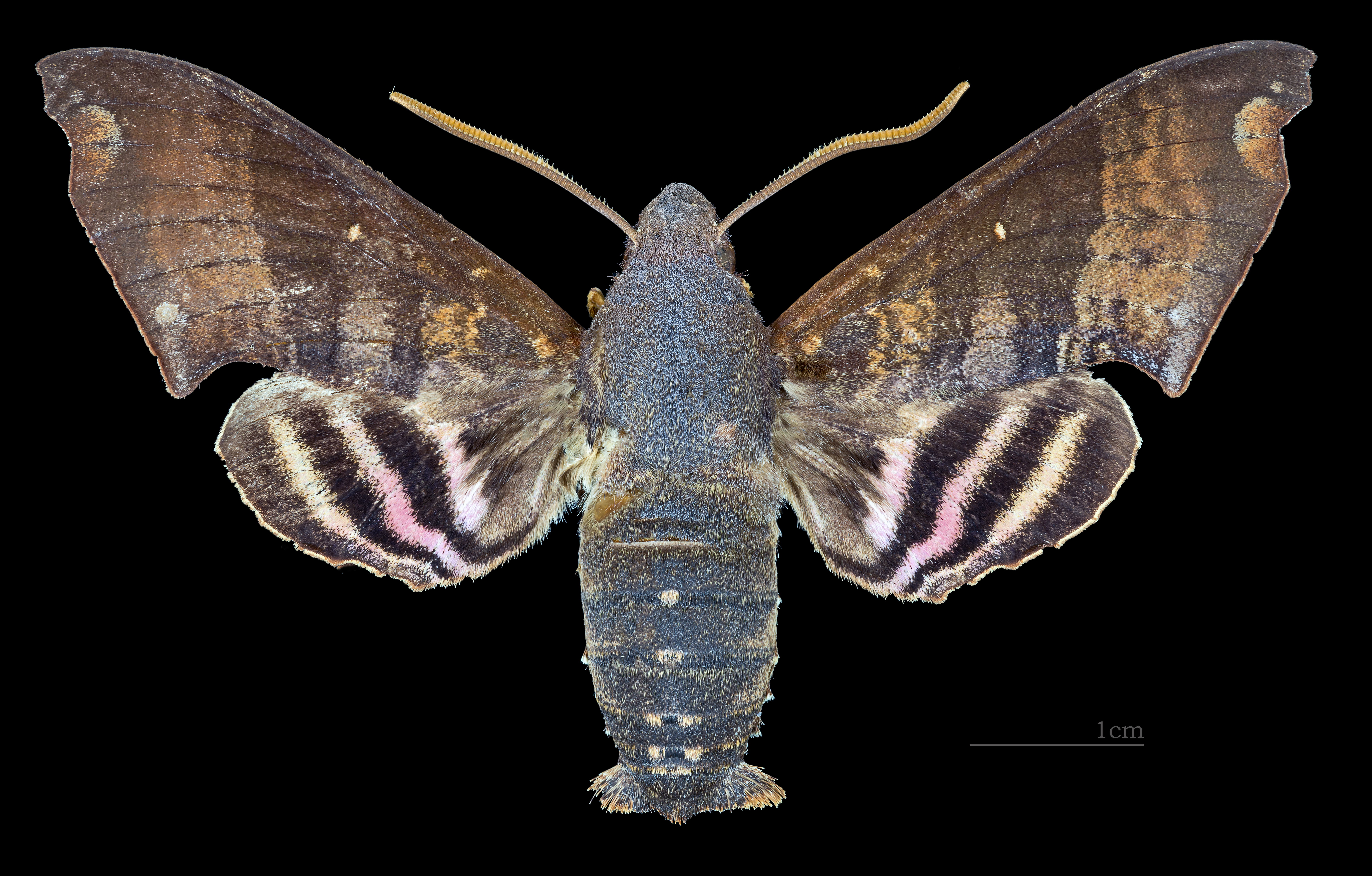 Pachygonidia martini - Dorsal side